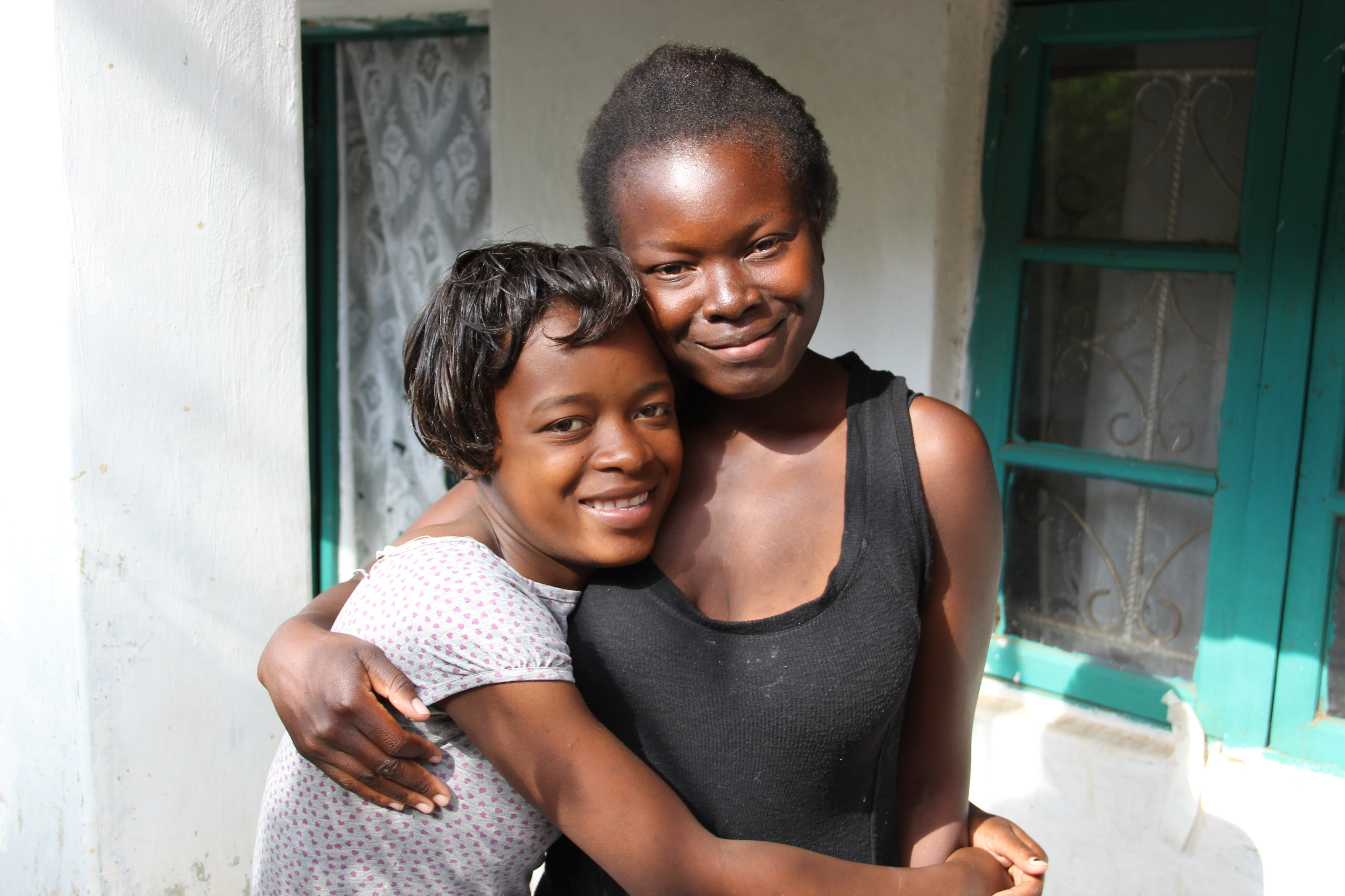 Brenda, 16, (left) and her older sister Atupele, 18, (right) are academically bright but had to drop out of school because their family could not afford the fees. Both are now young mothers. Young women aged 15-19 are twice as likely to die in pregnancy and childbirth as older women and starting young means a woman’s risk of dying of pregnancy and childbirth related causes in her lifetime is higher. Background On 11 July 2012 the UK Government and the Bill & Melinda Gates Foundation will host a groundbreaking summit to cut in half the current number of women and girls in the world’s poorest countries without access to contraception, but who wish to avoid pregnancy or space their children. Every woman and girl deserves the opportunity to to determine her own future. Contraceptives give the world's poorest women the power to decide if and when to have another child. Find out more at To follow the London Summit on Family Planning visit